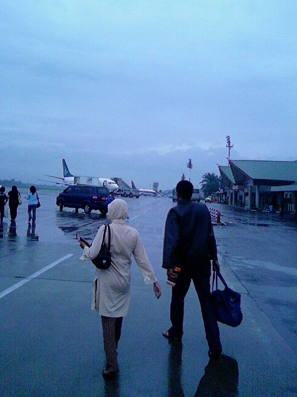 Passengers walking along the tarmac to get to their plane at Polonia Airport, Medan, Indonesia. Photo taken on Dec 2006.